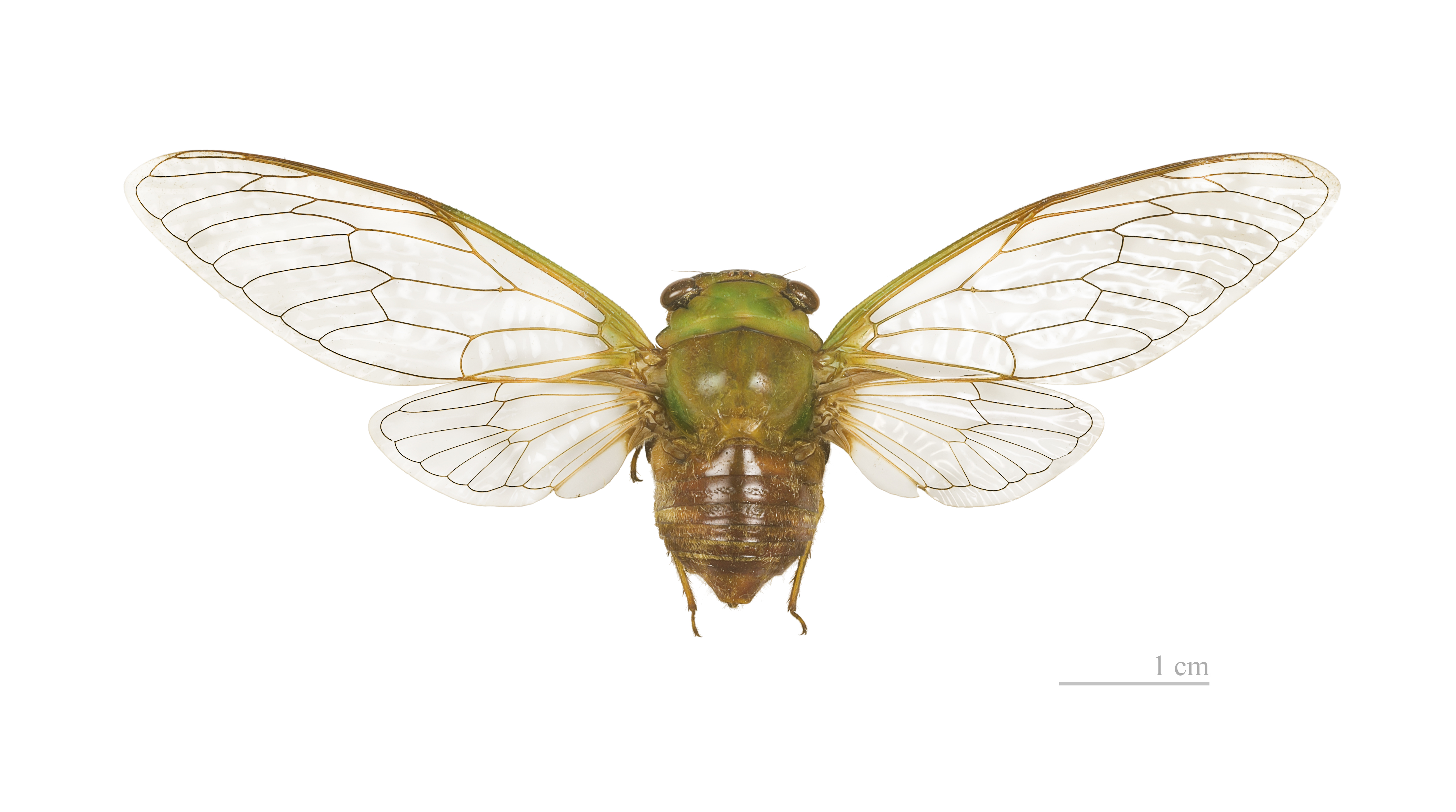 Flight position - Dorsal side Locality : crossroads, "Piste Risquetout, route Saut Léodate", Montsinéry, French Guianna.